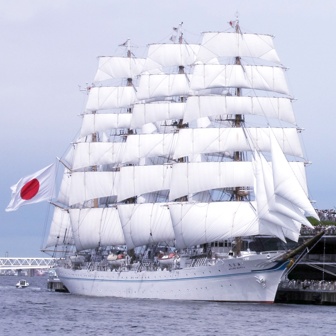 Japanese training tall ship Kaiwo Maru II off the Port of Yokohama.